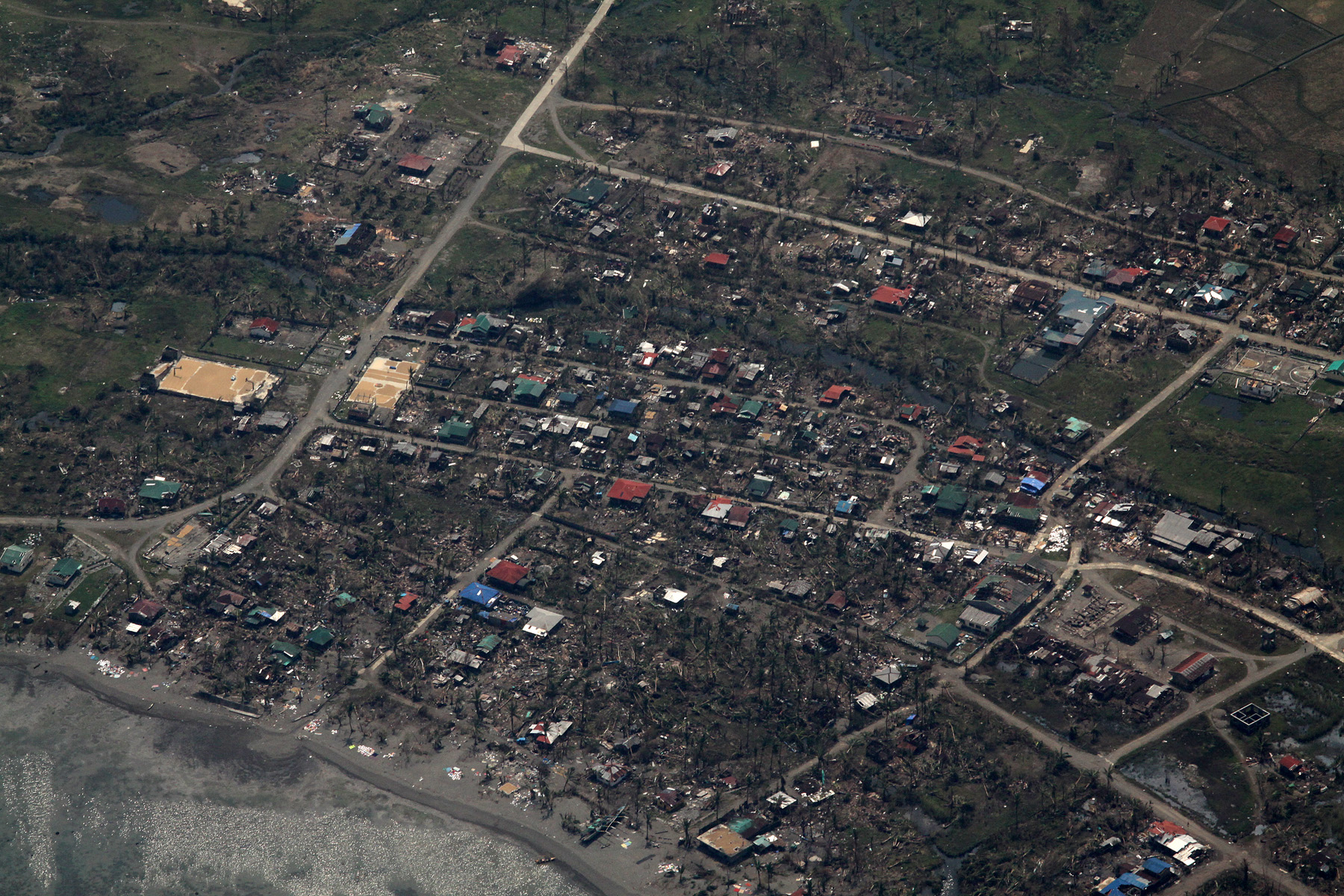 Buildings and roads in the Philippine town of Maconacon are visible from a P-3C Orion aircraft carrying U.S. Sailors Oct. 22, 2010. The Sailors, from Patrol Squadron (VP) 9, were assessing damage done by Super Typhoon Megi to the town and surrounding areas in northern Luzon, a region heavily affected by the storm.